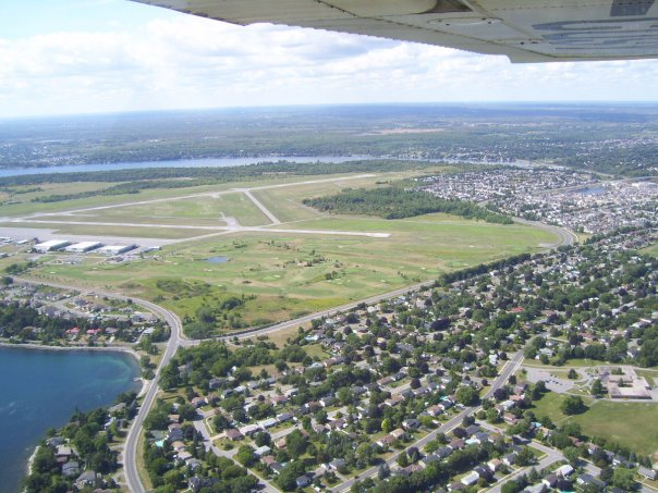 Kingston airport from the downwind leg of flight plan